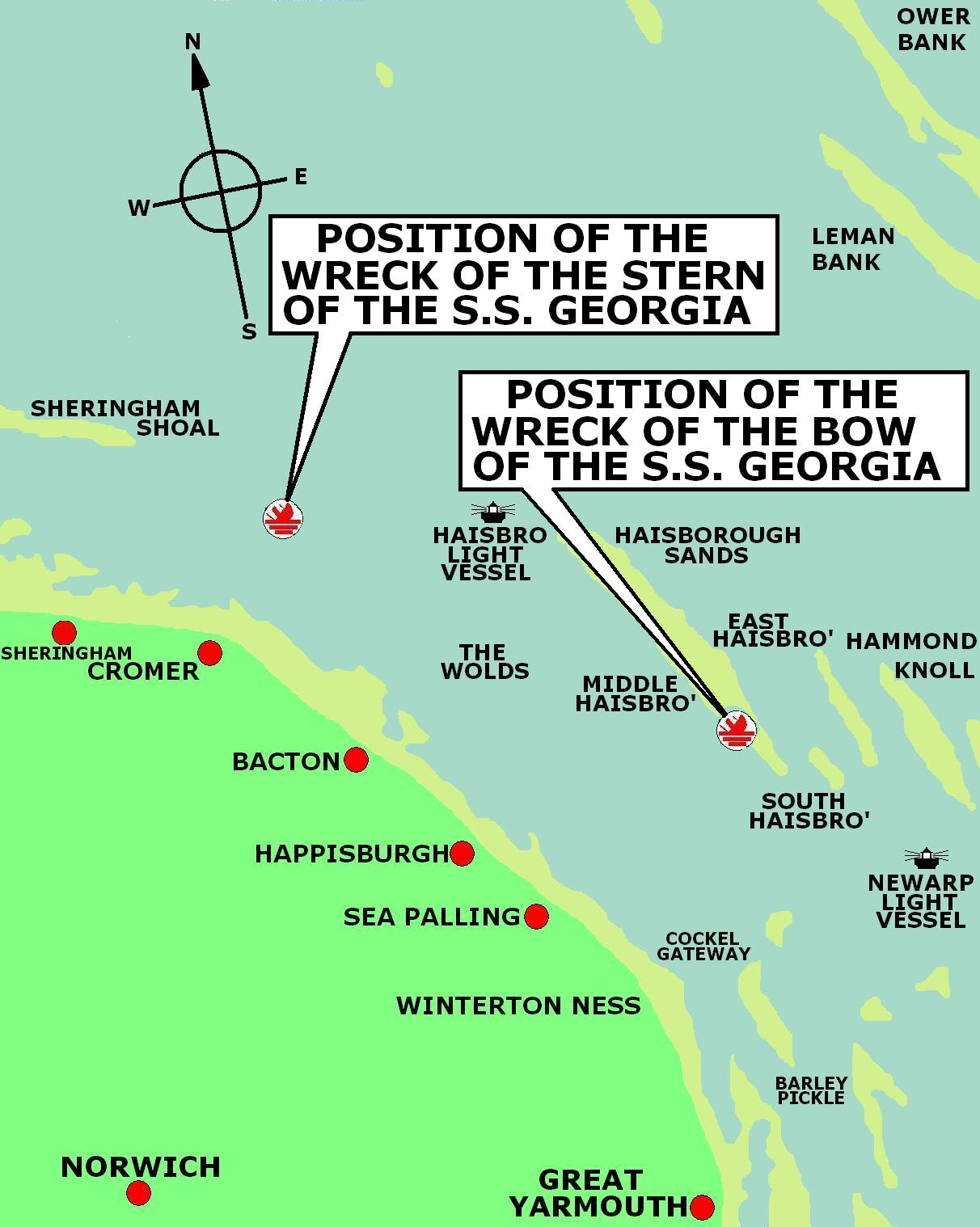 A map showing the positions of the wrecked stern and bow sections of the SS Georgia.